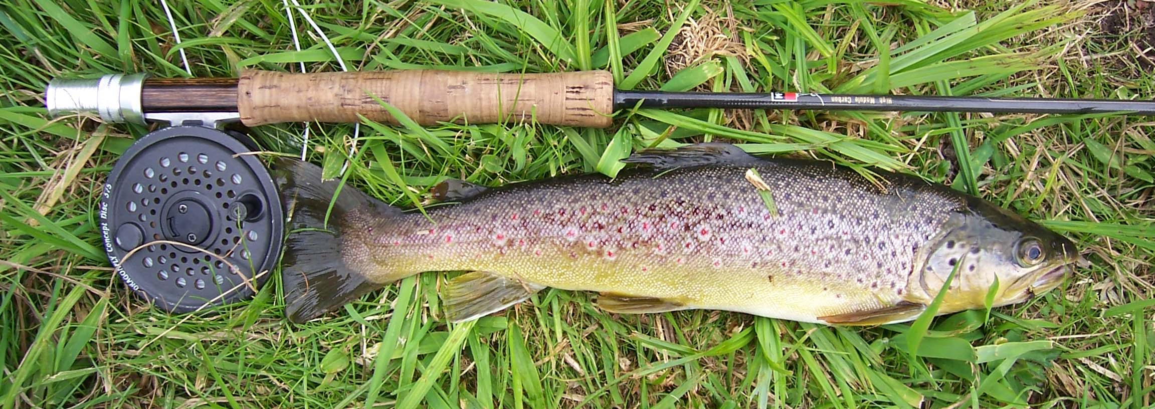 Typical wild brown trout from an English chalk stream